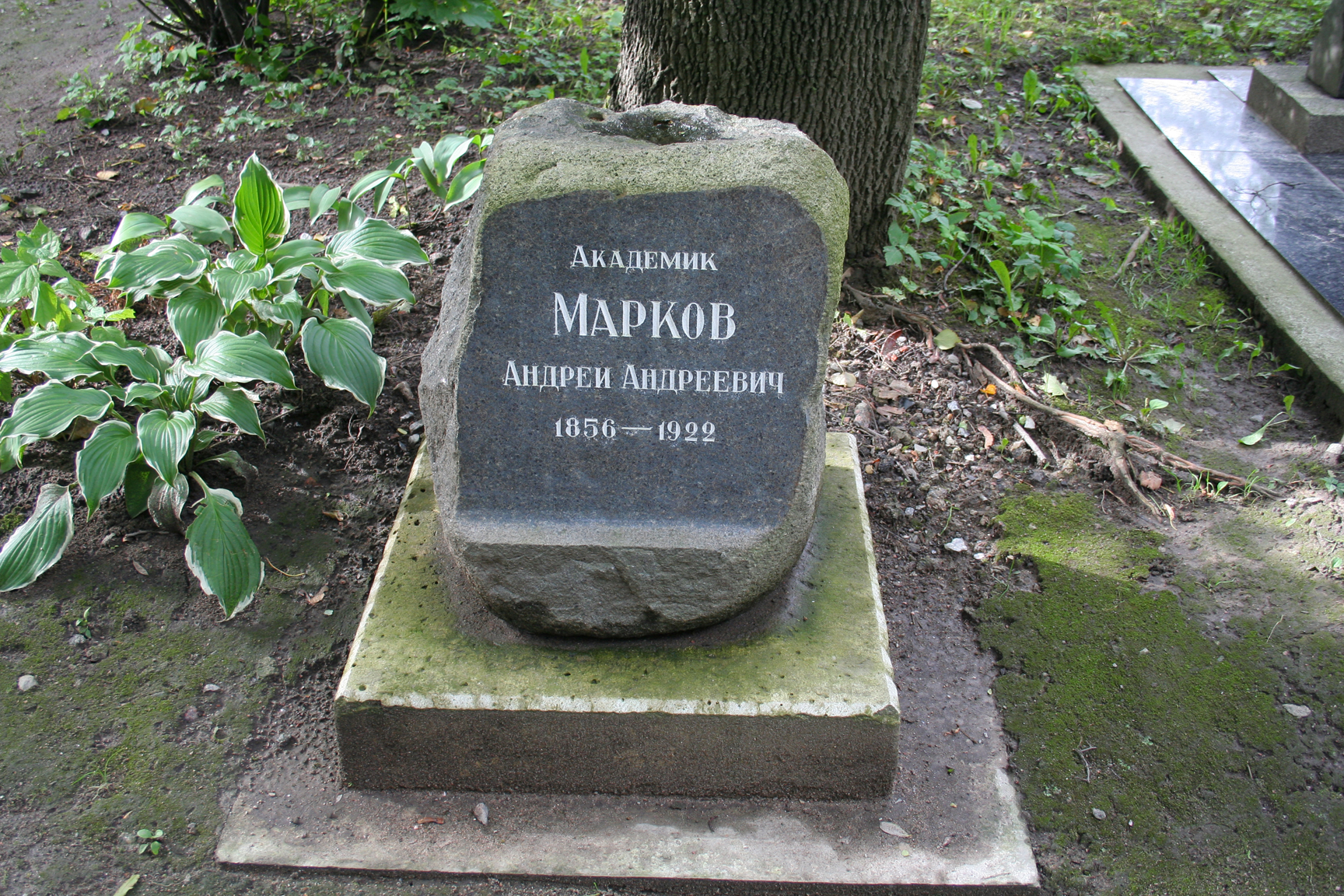 Saint Petersburg, Volkovskoe cemetery. Grave of Andrei Markov.